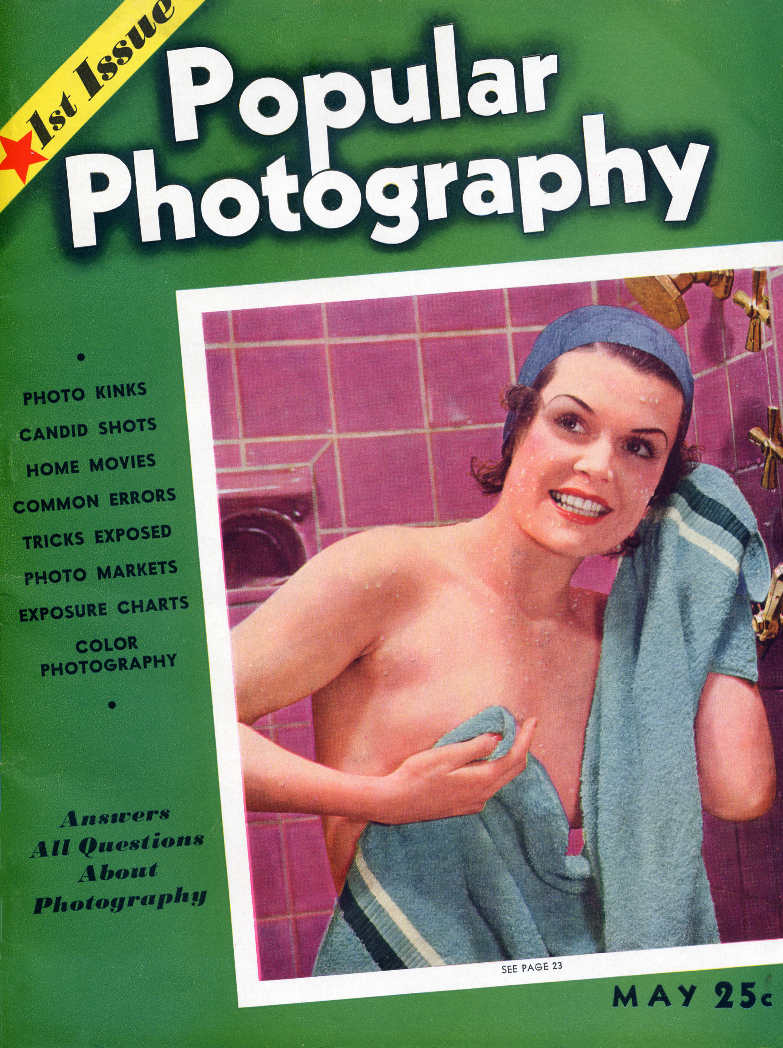 The color photograph on the cover was made with a custom designed camera that used color filters to capture the image on three black and white negatives. Mr. Young sold these cameras for $1200 in 1937. The model is Claire Powell, age 22, of Riverside, Illinois.